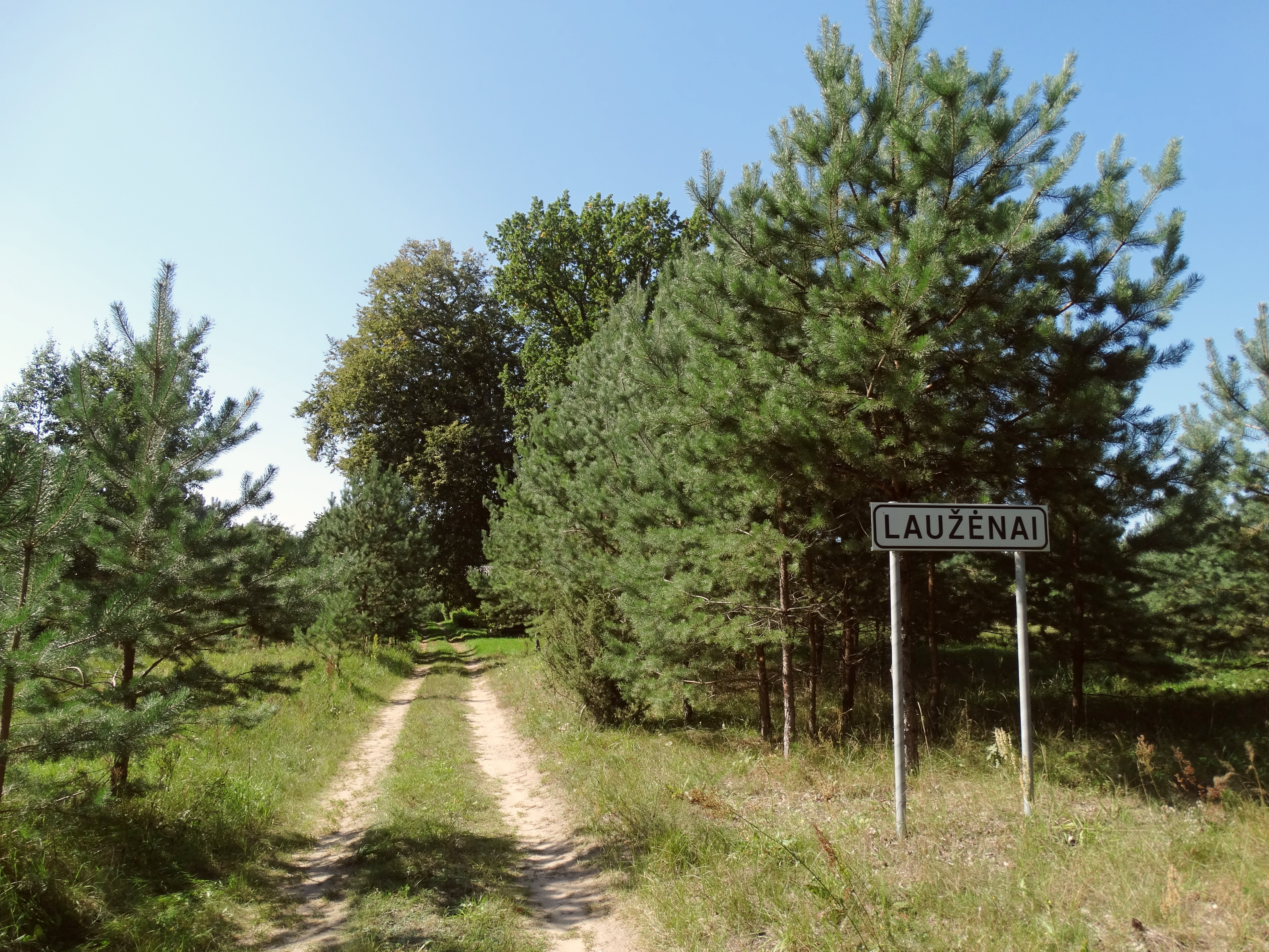 Laužėnai, Švenčionys District, Lithuania